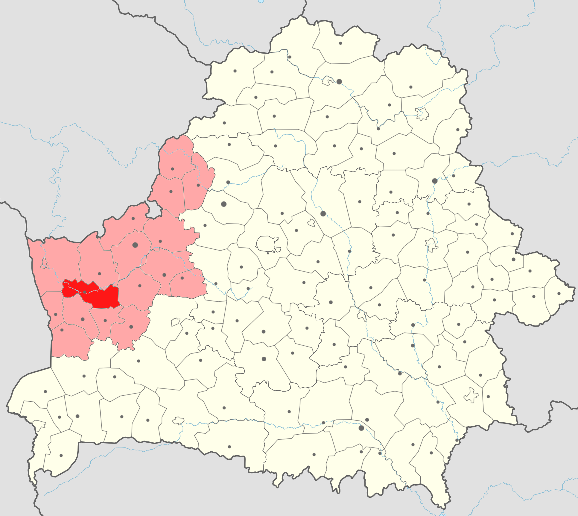 Map of Mastoŭski rayon (in red) with Hrodna voblast' (in light red) on the map of Belarus.